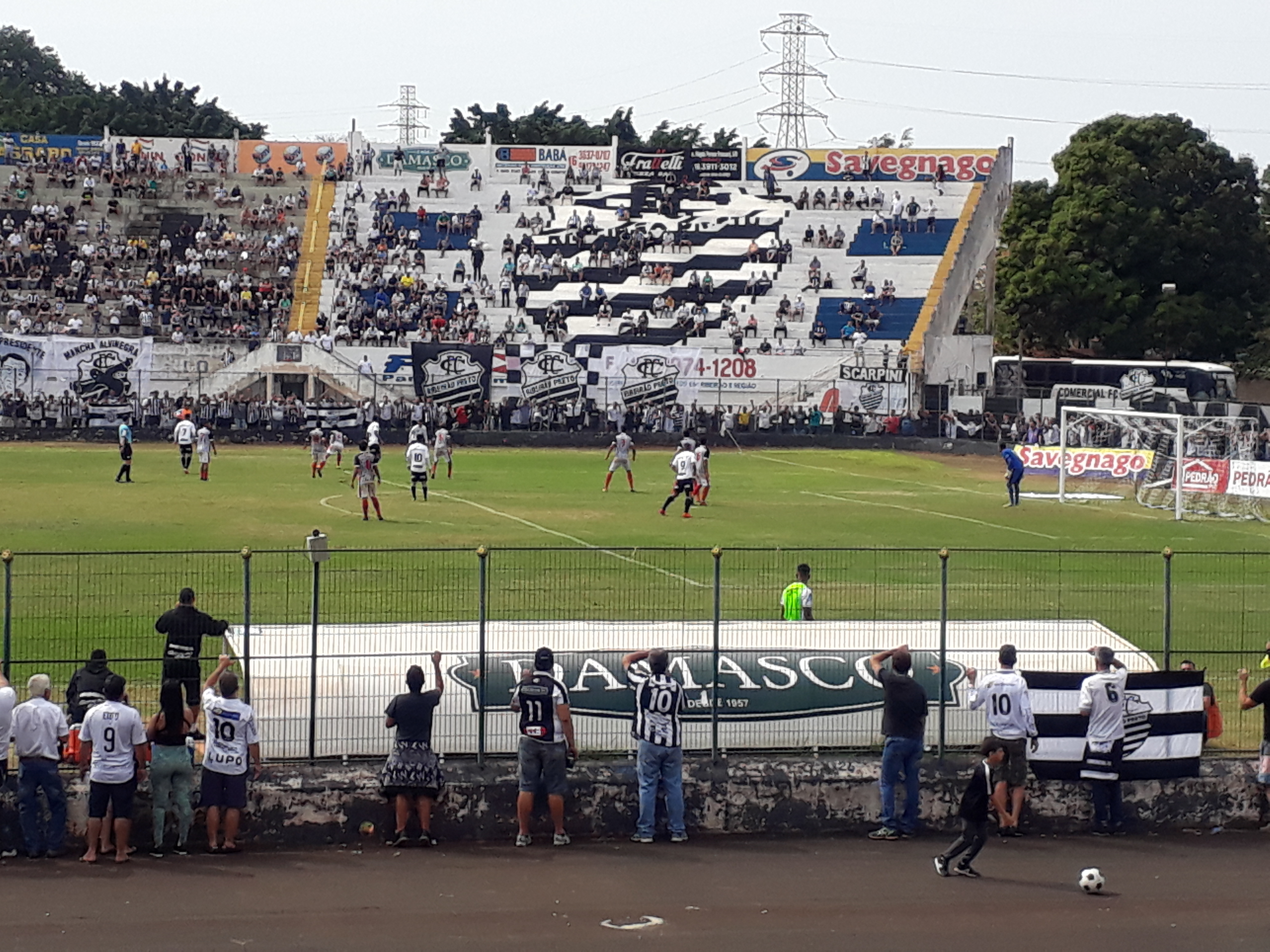 Joke of the Trade has as a tradition, follow the games in the fence of Joia!